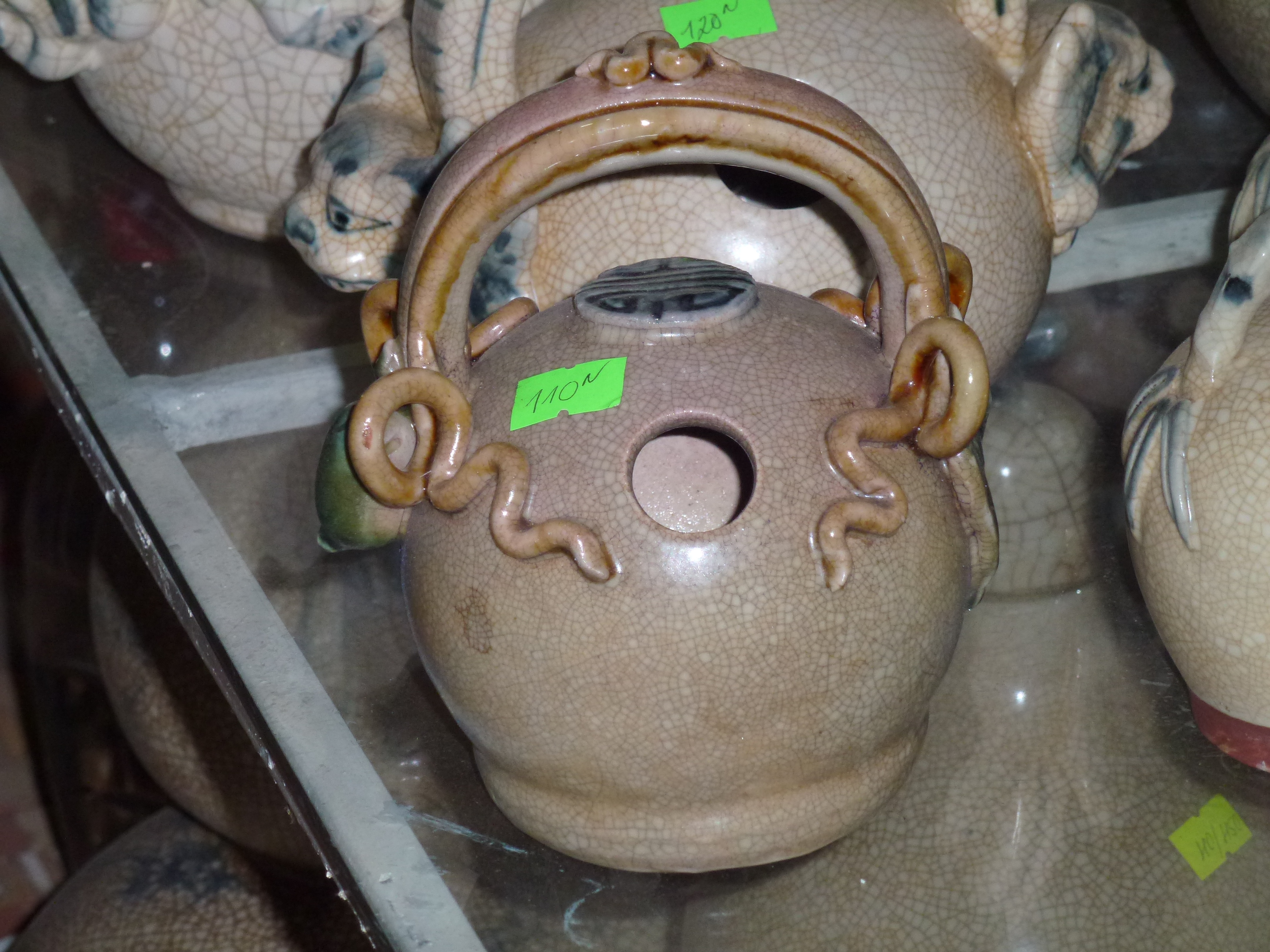 Lime container - Bat Trang ceramicTiếng Việt: Bình vôi bằng gốm Bát Tràng